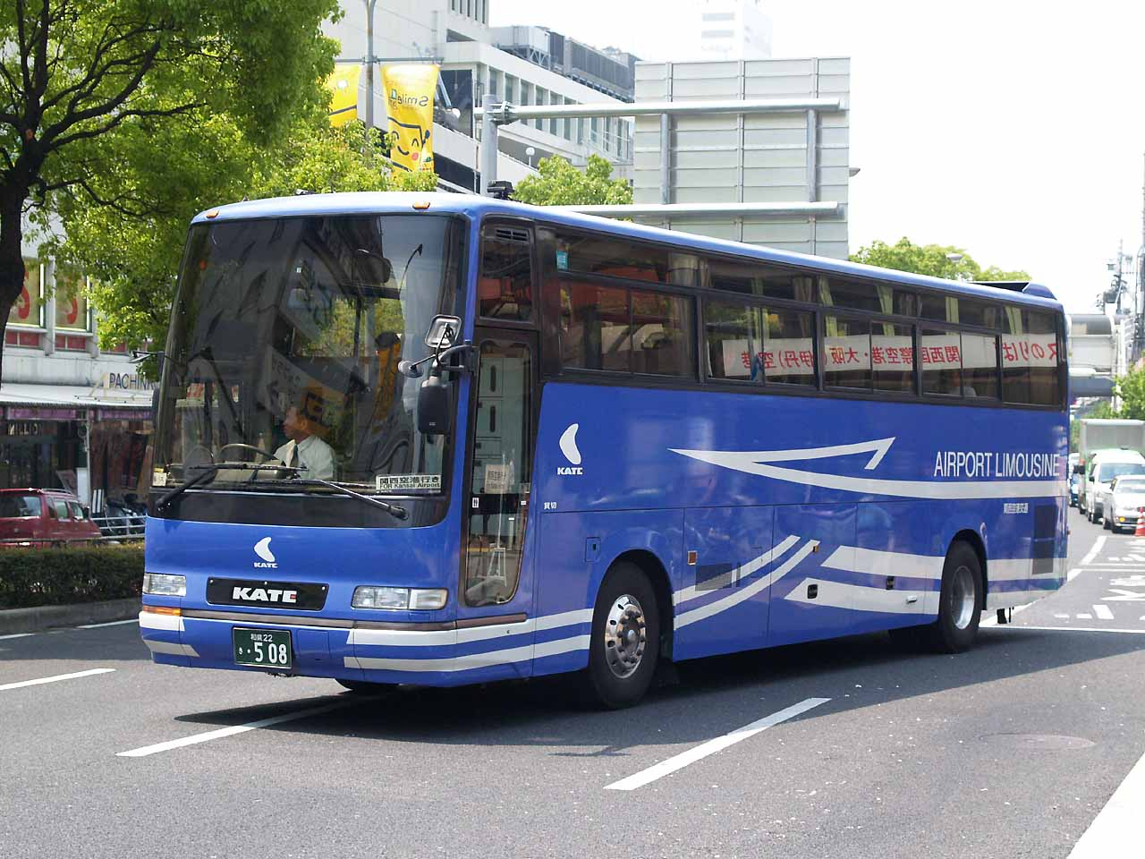 Fleet of Kansai Airport Transportation Enterprise (KATE), for Kansai International Airport "Limousine" shuttle bus. Model: HINO Selega GD U-RU3FSAB License Plate: OSI22 KI-508 Place: San-no-miya, Chuo Ward, Kobe City, Hyogo Japan 関西空港交通のリムジンバスの一例。青を基調に白いラインが標準色。 型式：日野セレガGD U-RU3FSAB 登録番号：和泉22き・508 撮影地：兵庫県神戸市中央区、三宮駅付近